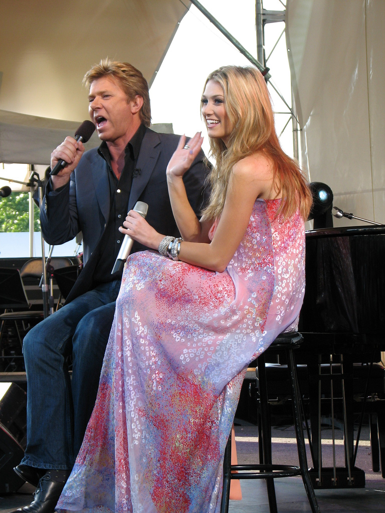 Delta Goodrem | Fed Square, Melbourne | 27th November 2007